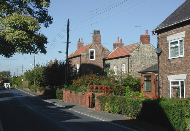 Main Street, Asselby, East Riding of Yorkshire, England.Looking west-northwest from Studio Cottage.